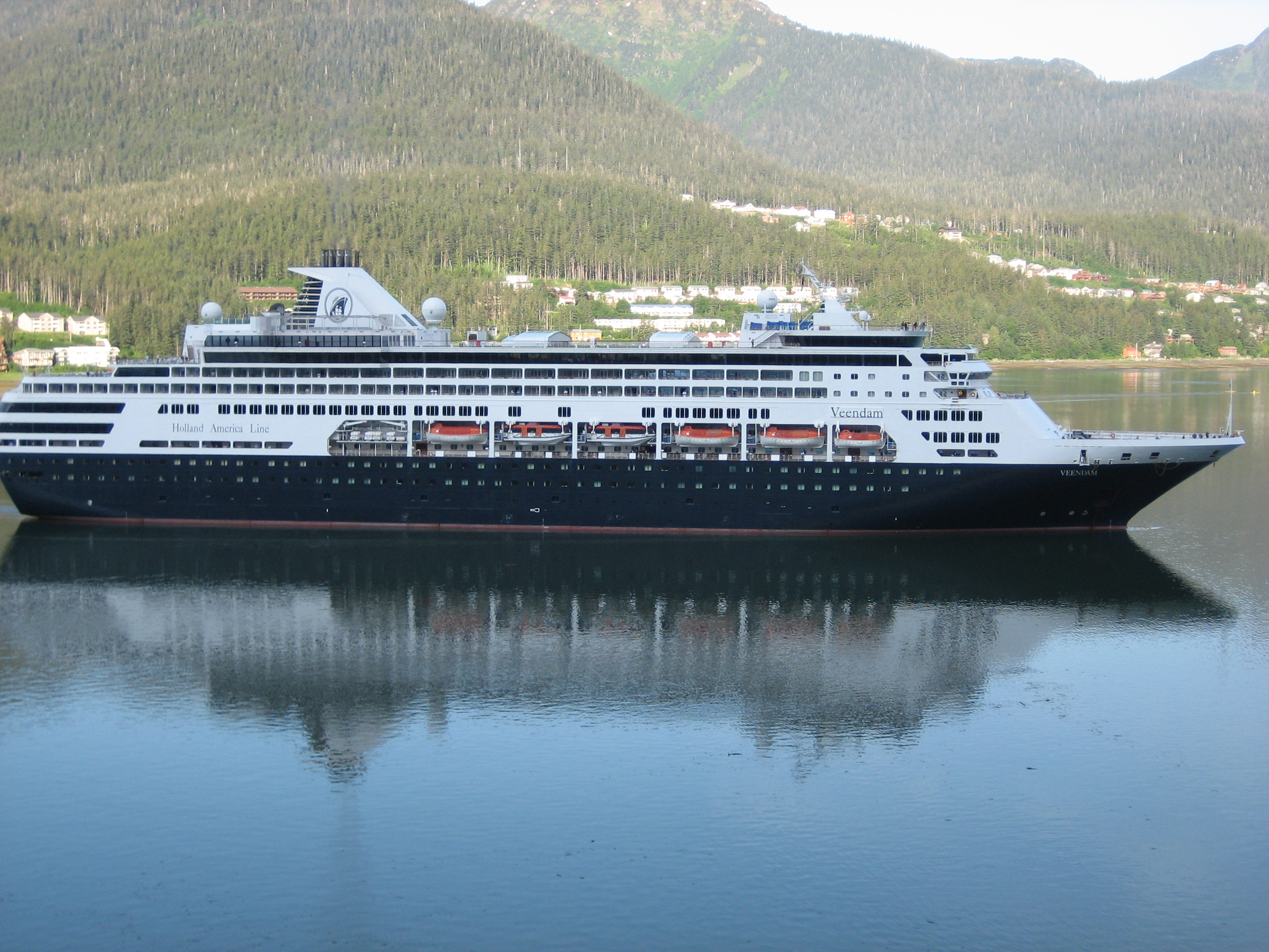 Holland America Line's ms Veendam ship in Juneau, Alaska in June 2006. I took the photo myself and release it into the Public Domain. - DJHeini (talk) 05:06, 24 June 2006 (UTC)